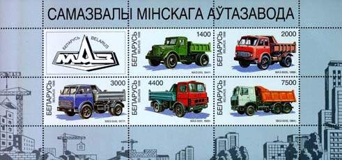 Stamp of Belarus